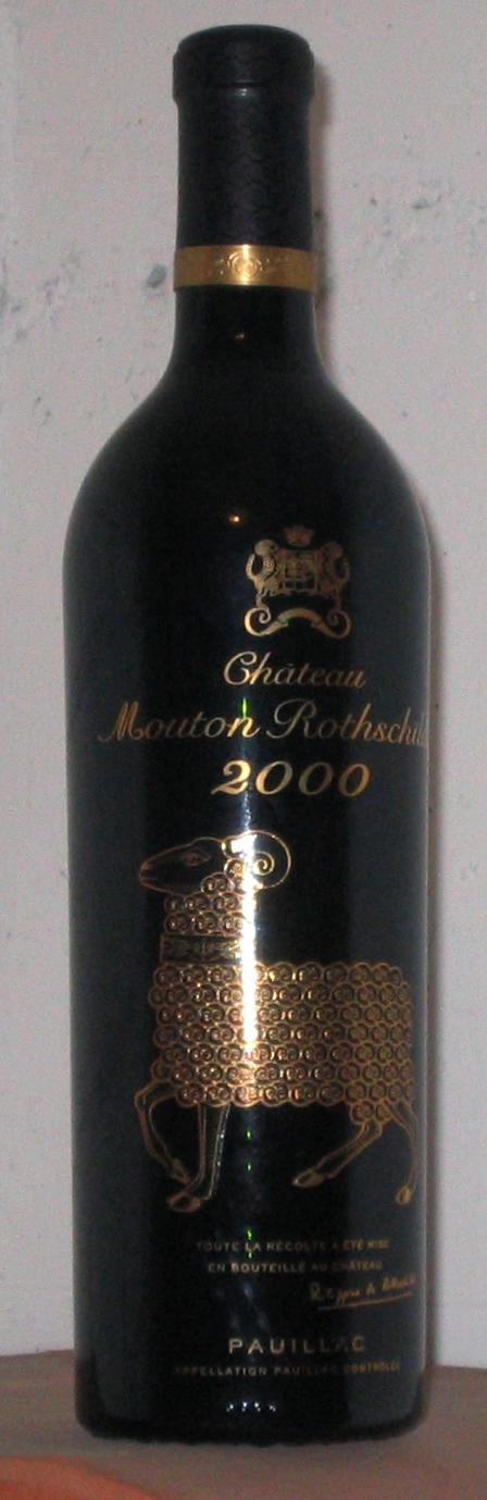 Chateau Mouton Rothschild 2000